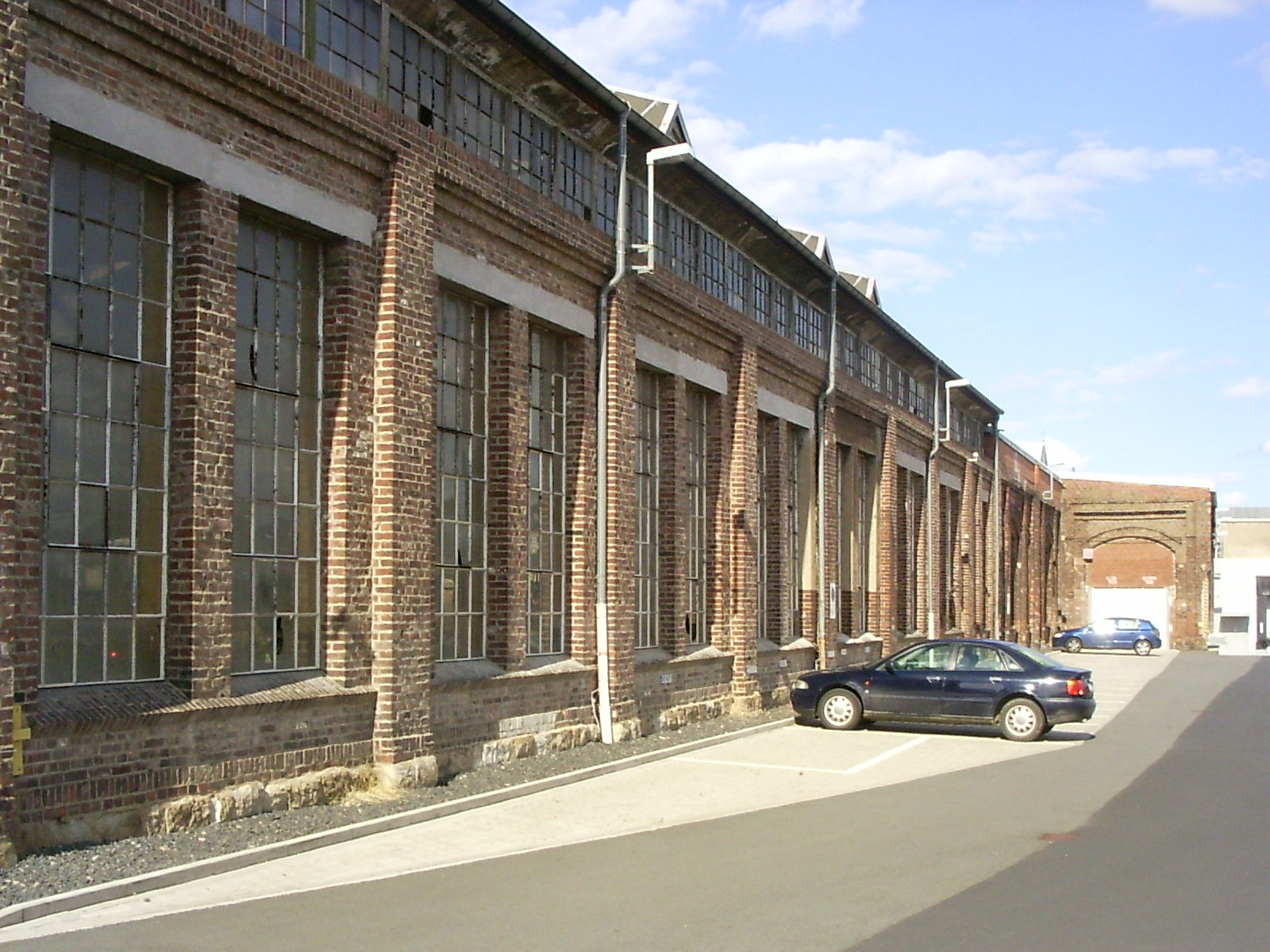 Former Limburg/Lahn train maintenance center